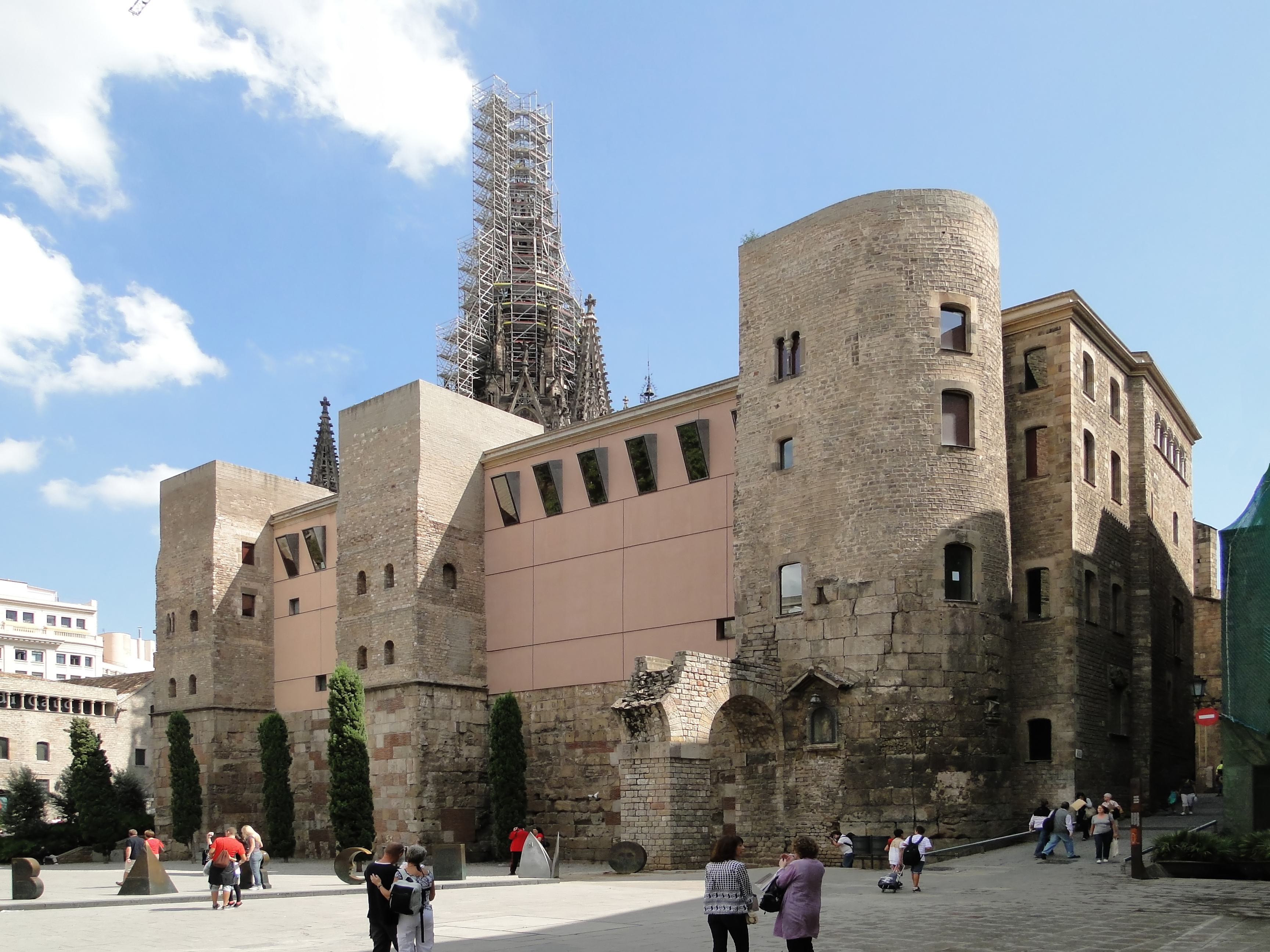 Casa de l'Ardiaca viewed from Plaça Nova, Barcelona, Spain